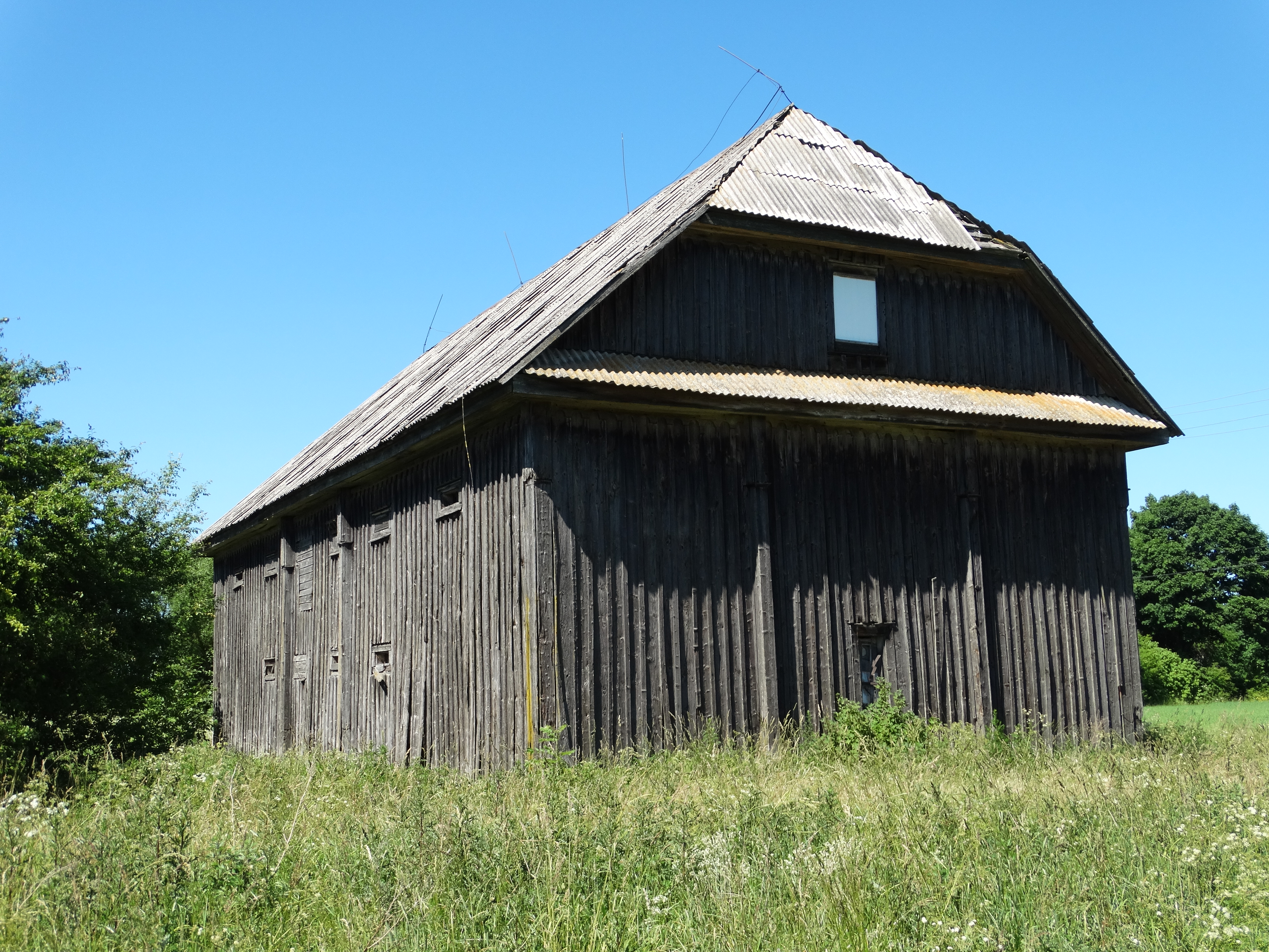 Former manor, Ročiai, Raseiniai District, Lithuania